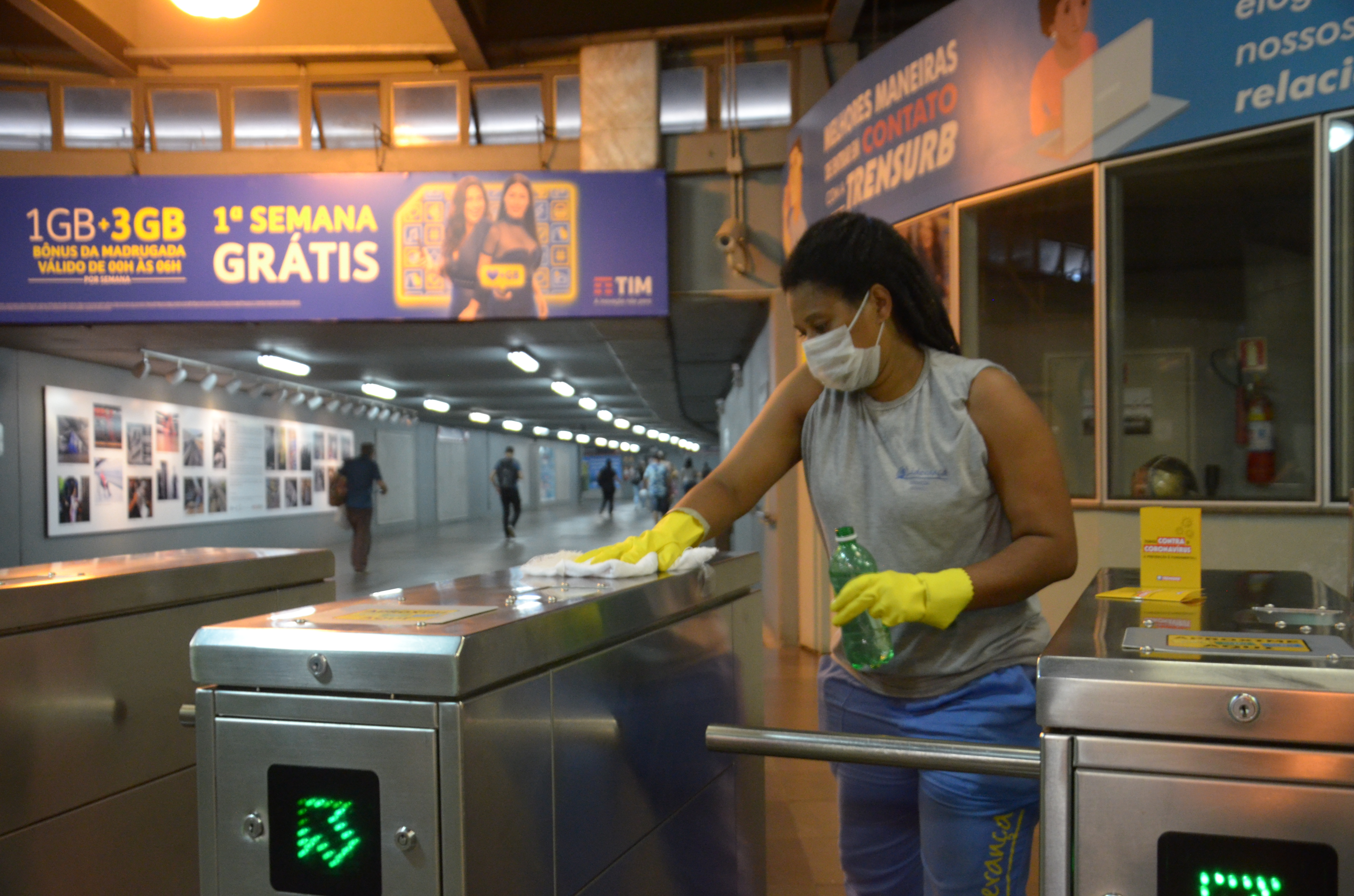 Angelo Pieretti